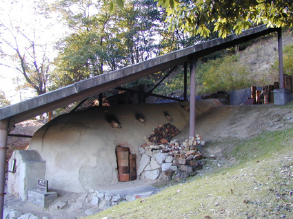 Ogama Seto.